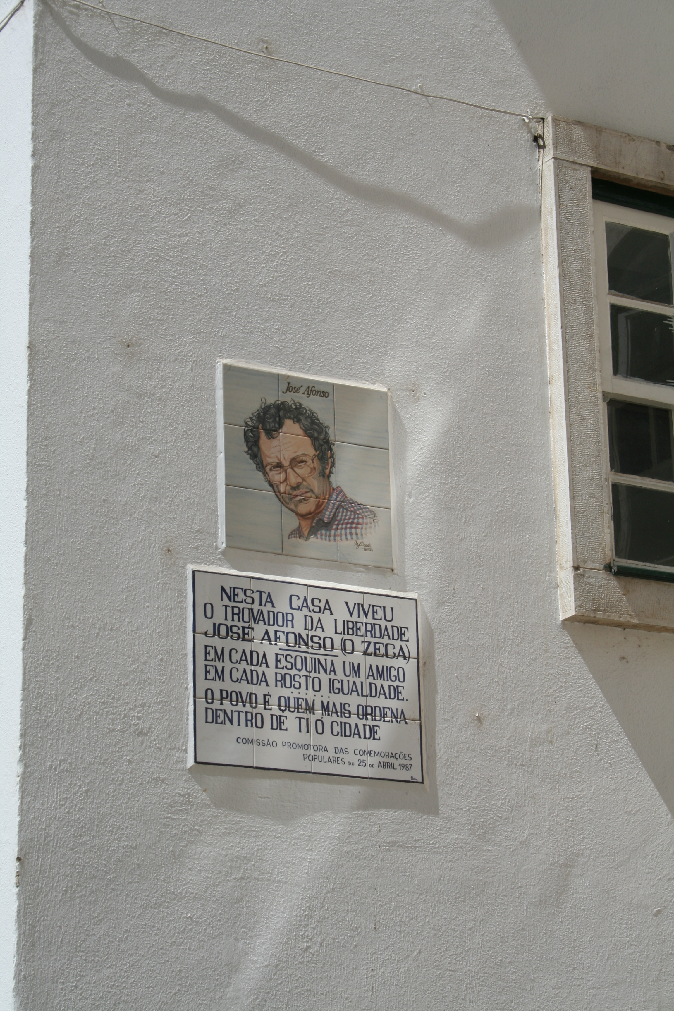 The house in Coimbra where the poet José (Zeca) Afonso lived.